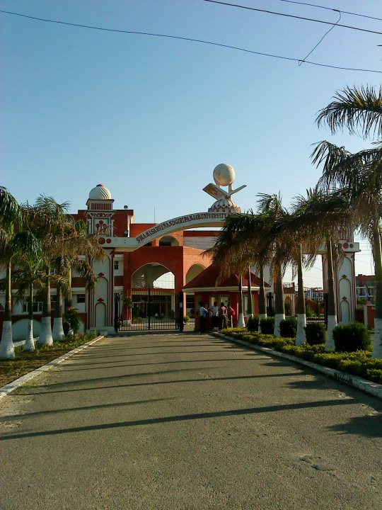 panjab university colleges, photo of of the front gate of the college